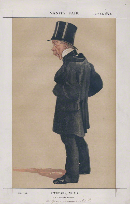 Caricature of Mr George Leeman MP. Caption read "A Yorkshire Solicitor".